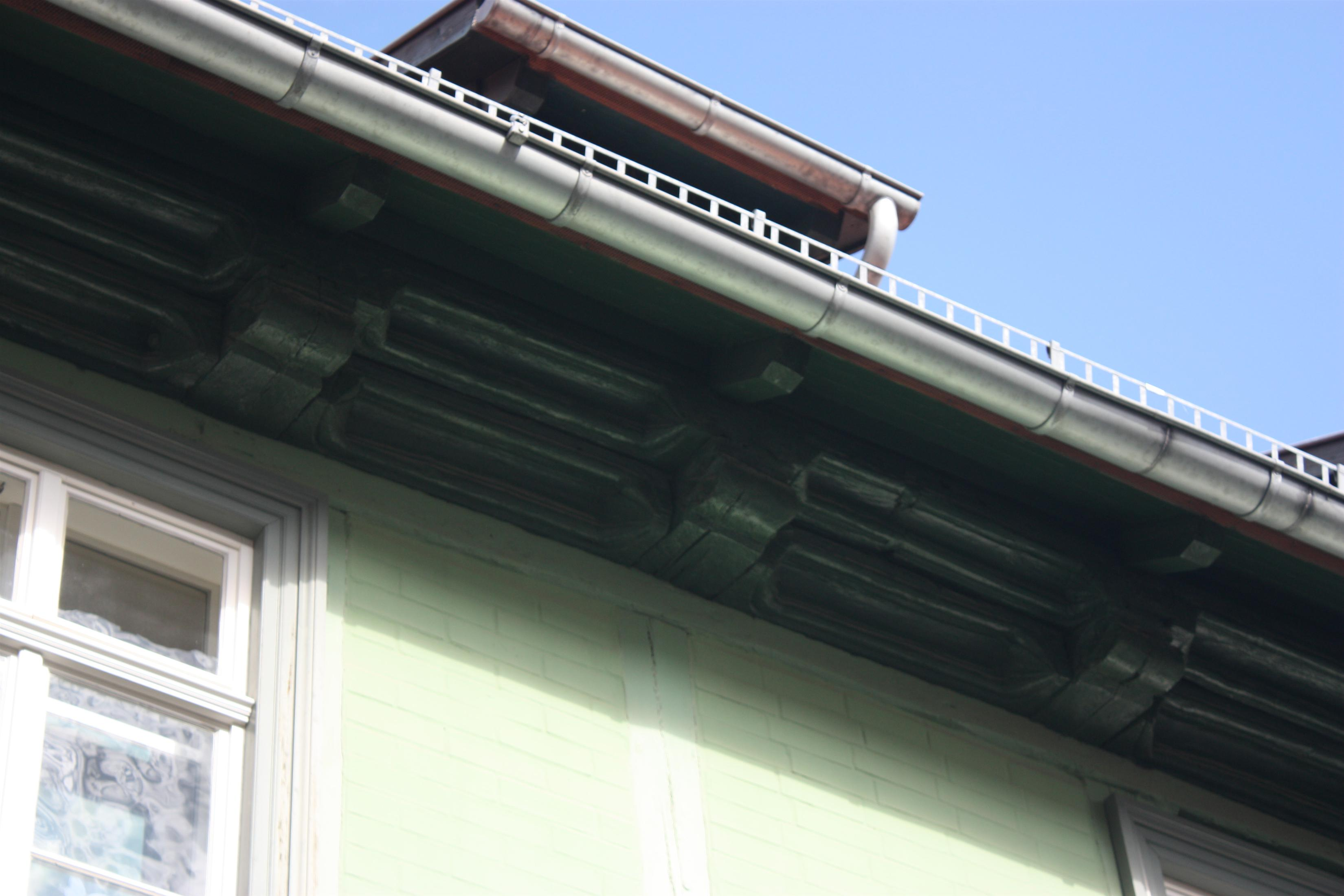 This is a photograph of an architectural monument.It is on the list of cultural monuments of Quedlinburg Hohe Straße 37 Detail